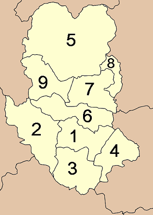 Map of the province Sukhothai with the districts (Amphoe) numbered. Mueang Sukhothai (อำเภอเมืองสุโขทัย) Ban Dan Lan Hoi (อำเภอบ้านด่านลานหอย) Khiri Mat (อำเภอคีรีมาศ) Kong Krailat (อำเภอกงไกรลาศ) Si Satchanalai (อำเภอศรีสัชนาลัย) Si Samrong (อำเภอศรีสำโรง) Sawankhalok (อำเภอสวรรคโลก) Si Nakhon (อำเภอศรีนคร) Thung Saliam (อำเภอทุ่งเสลี่ยม)